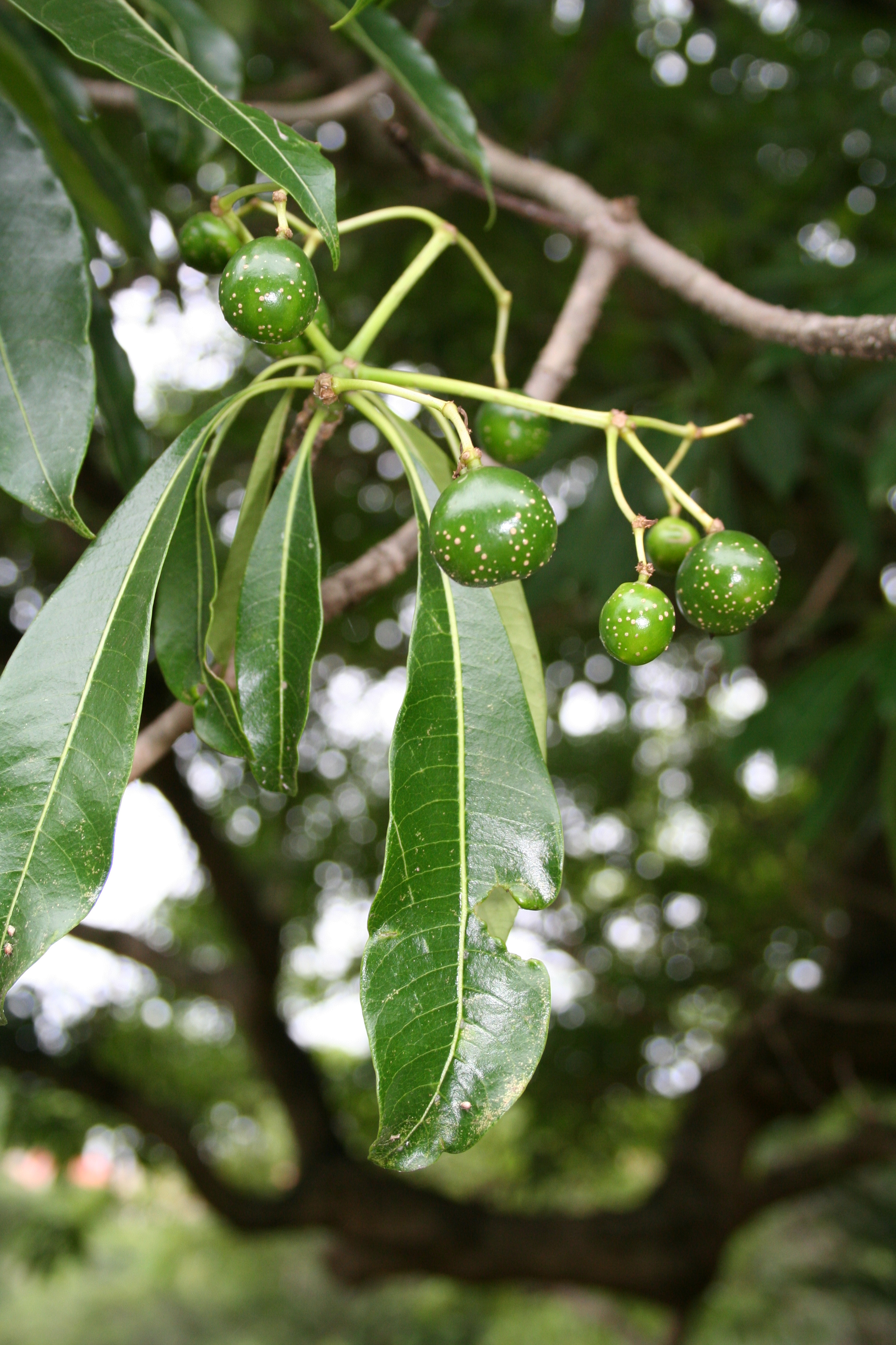 Rauvolfia caffra, Lowveld Botanical Garden, South Africa